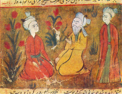 Amir Khusrow surrounded by young men. Miniature from a manuscript of Majlis Al-Usshak by Husayn Bayqarah